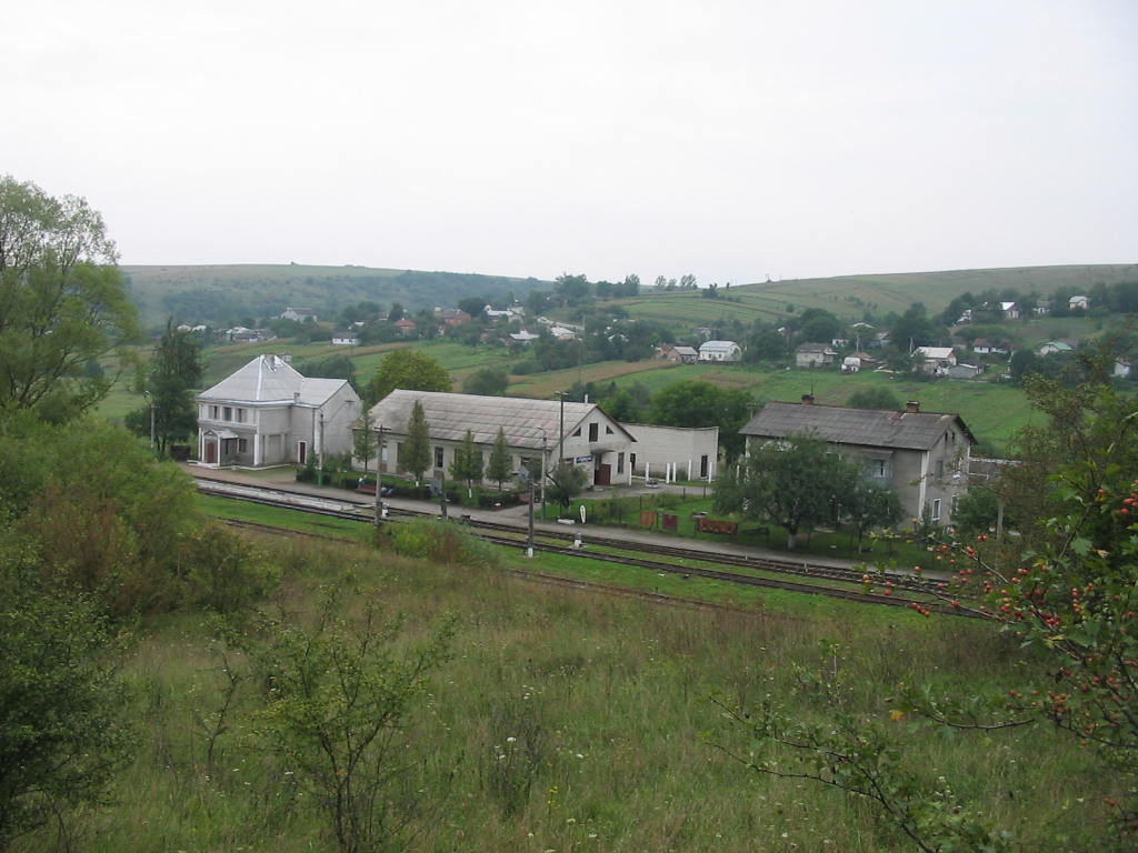 Train station at village Pidvysoke, Berezhanskyi Raion, Ternopil oblast, western Ukraine